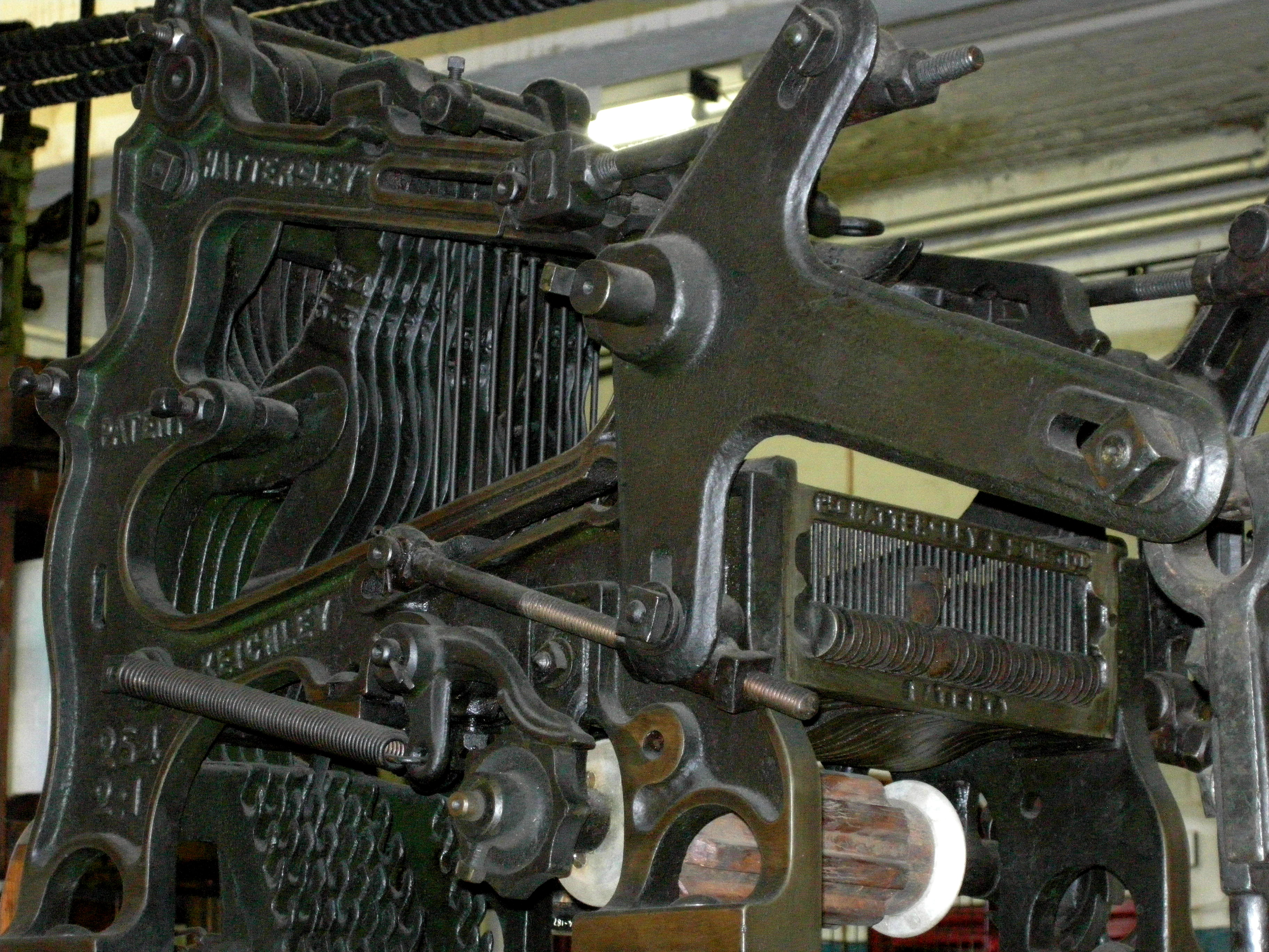 Part of loom at Bradford Industrial Museum, Bradford, West Yorkshire, England. 53.48'.40".N; 1.43'.16".W.